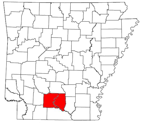 Locator map of the Camden Micropolitan Statistical Area in the southern part of the U.S. state of Arkansas.